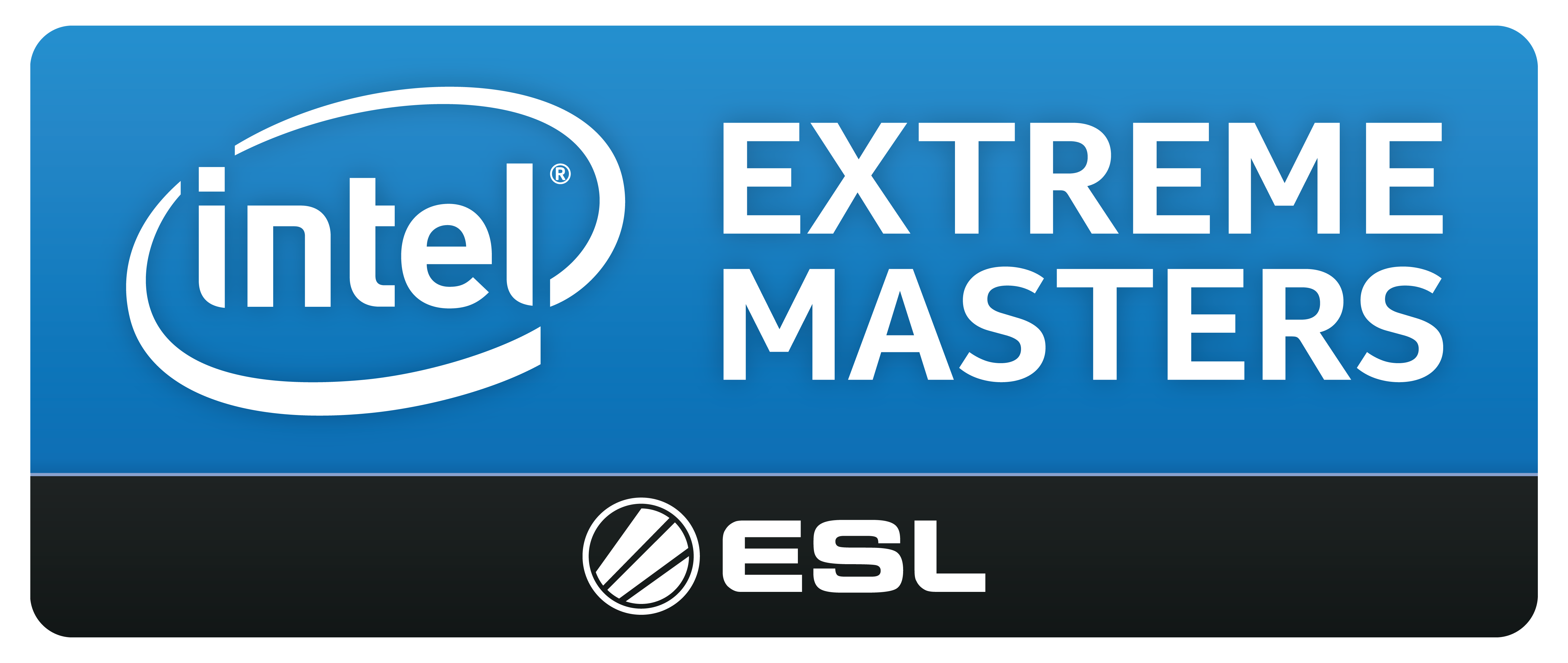 Intel Extreme Masters 2014 Logo